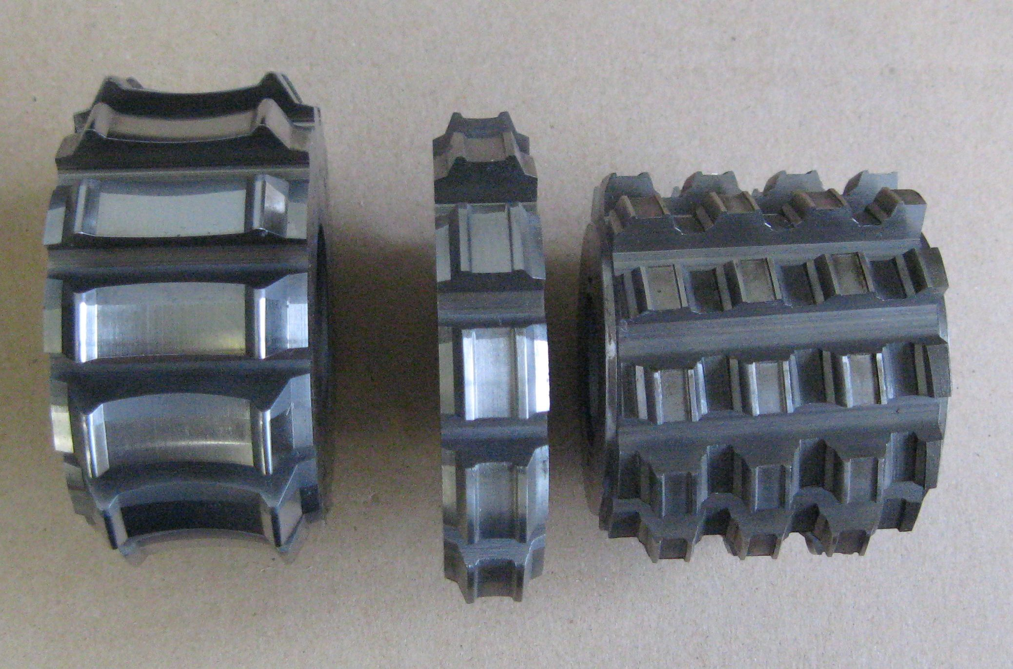 Three hobs for straight sided splines